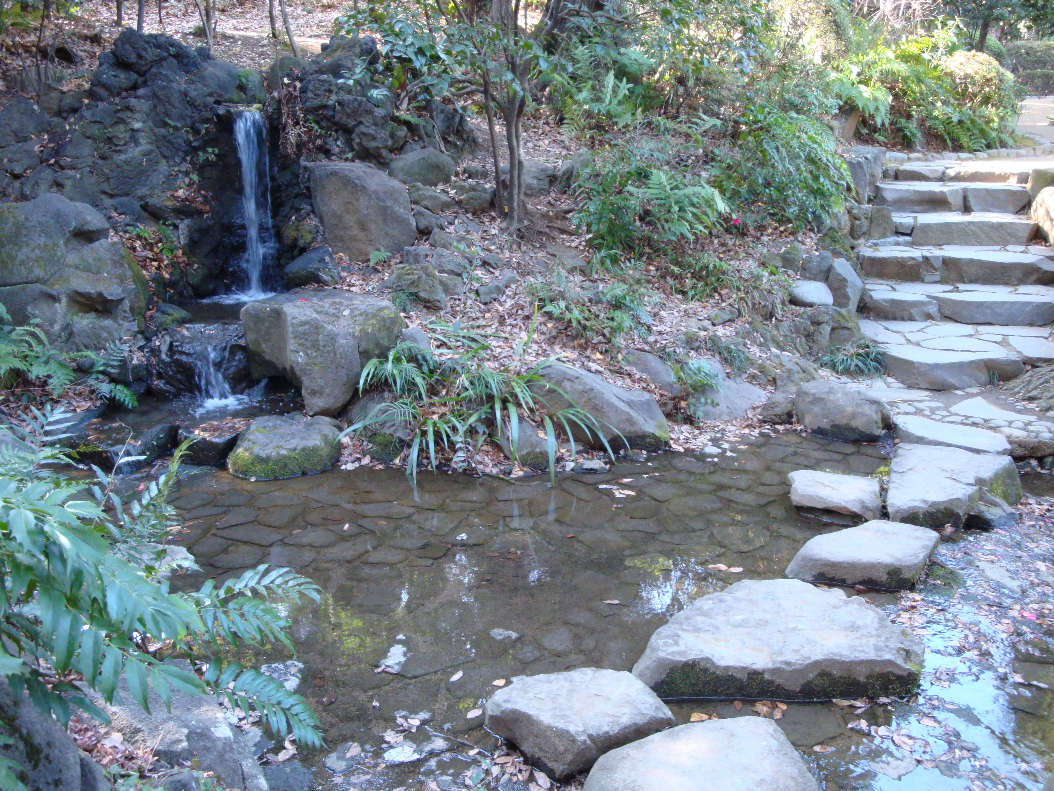 Kansenen Park, Tokyo, Japan